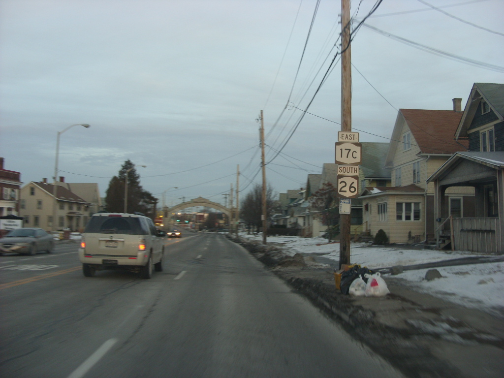 Eastward along NY 17C and NY 26